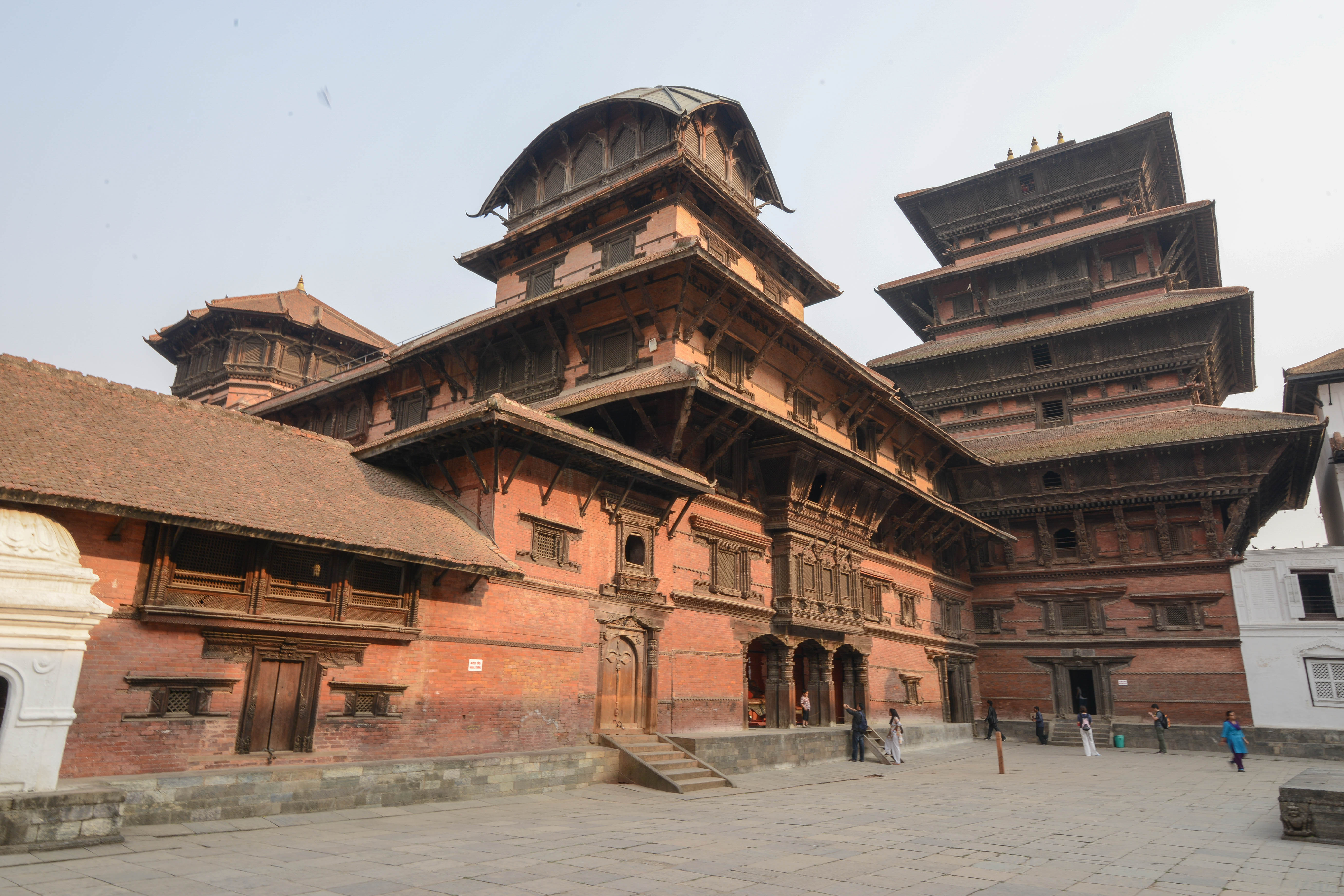 The Basantapur Tower ('Basantpur' means "place of Spring") is located on the south of Nasal Chok. It is a nine-storey tower from the top of which a panoramic view of the palace and city could be seen. Erotic images are carved on the struts of this tower. This tower is one of the four red towers that King Prithvi Narayan Shah built delimiting the four old cities of the Kathmandu Valley namely, the Kathmandu or the Basantapur Tower, the Kirtipur Tower, the Bhaktapur Tower or Lakshmi Bilas, and the Patan or Lalitpur Tower